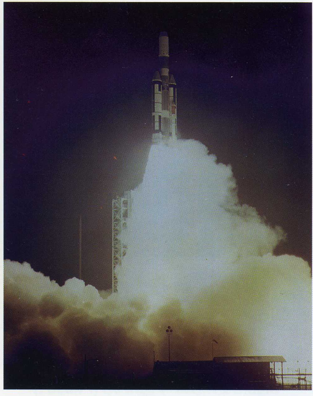 Launch of Defense Support Program satellite Flight-1 on 6 NOv 1970